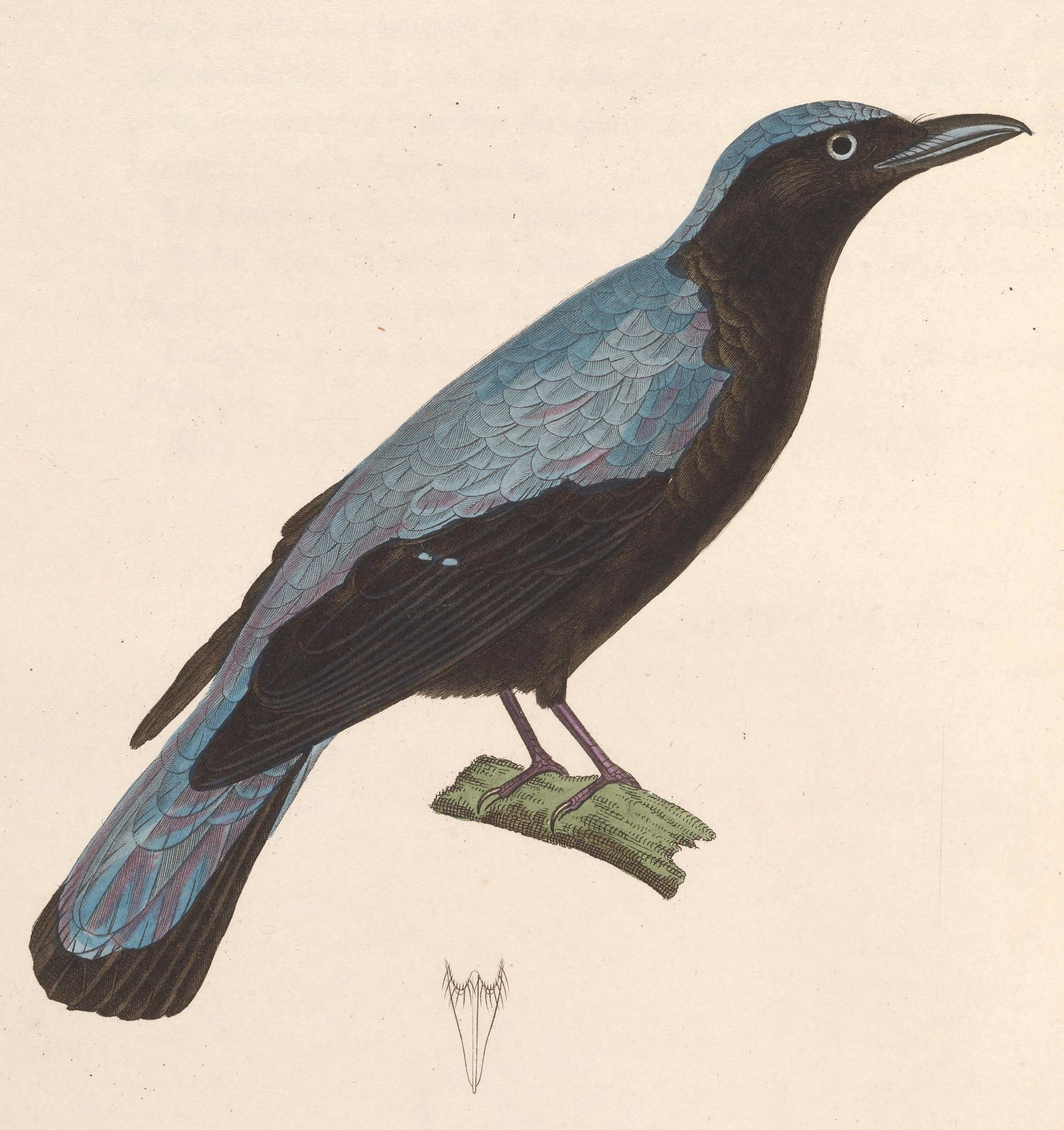 « Edolius puellus » = Irena puella (Asian Fairy-bluebird) - adult male